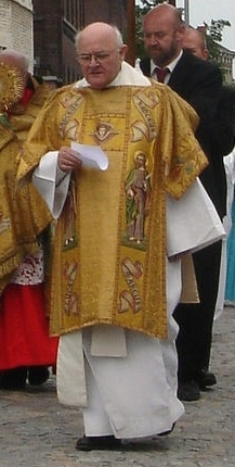 Deacon wearing a golden dalmatic.